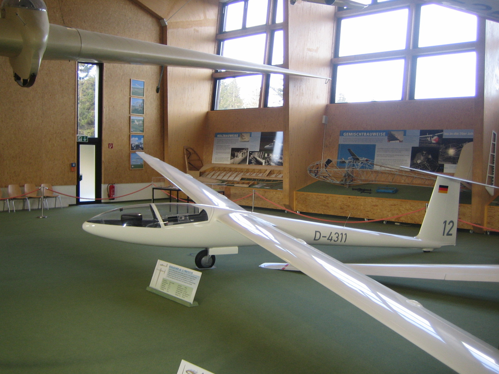 Glider Schleicher ASW 12, on display in the German Sailplane Museum